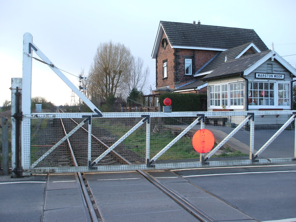 Opened in 1848 by the East and West Yorkshire Junction Railway on its line from York to Pannal, near Harrogate, this station closed in 1958 although the York-Harrogate-Leeds line is still open. View west through traditional crossing gates towards Hammerton and Harrogate